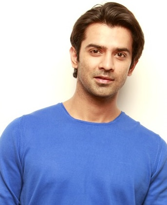 Barun Sobti in blue tshrirt